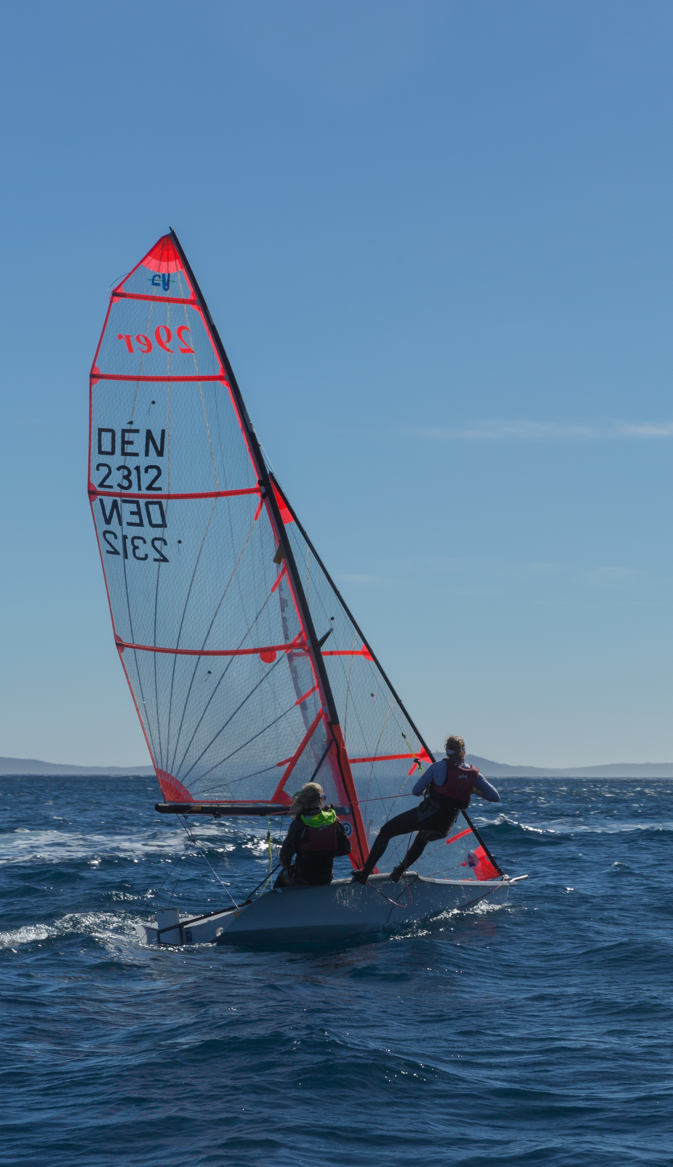 29er training at Cavalaire-sur-Mer